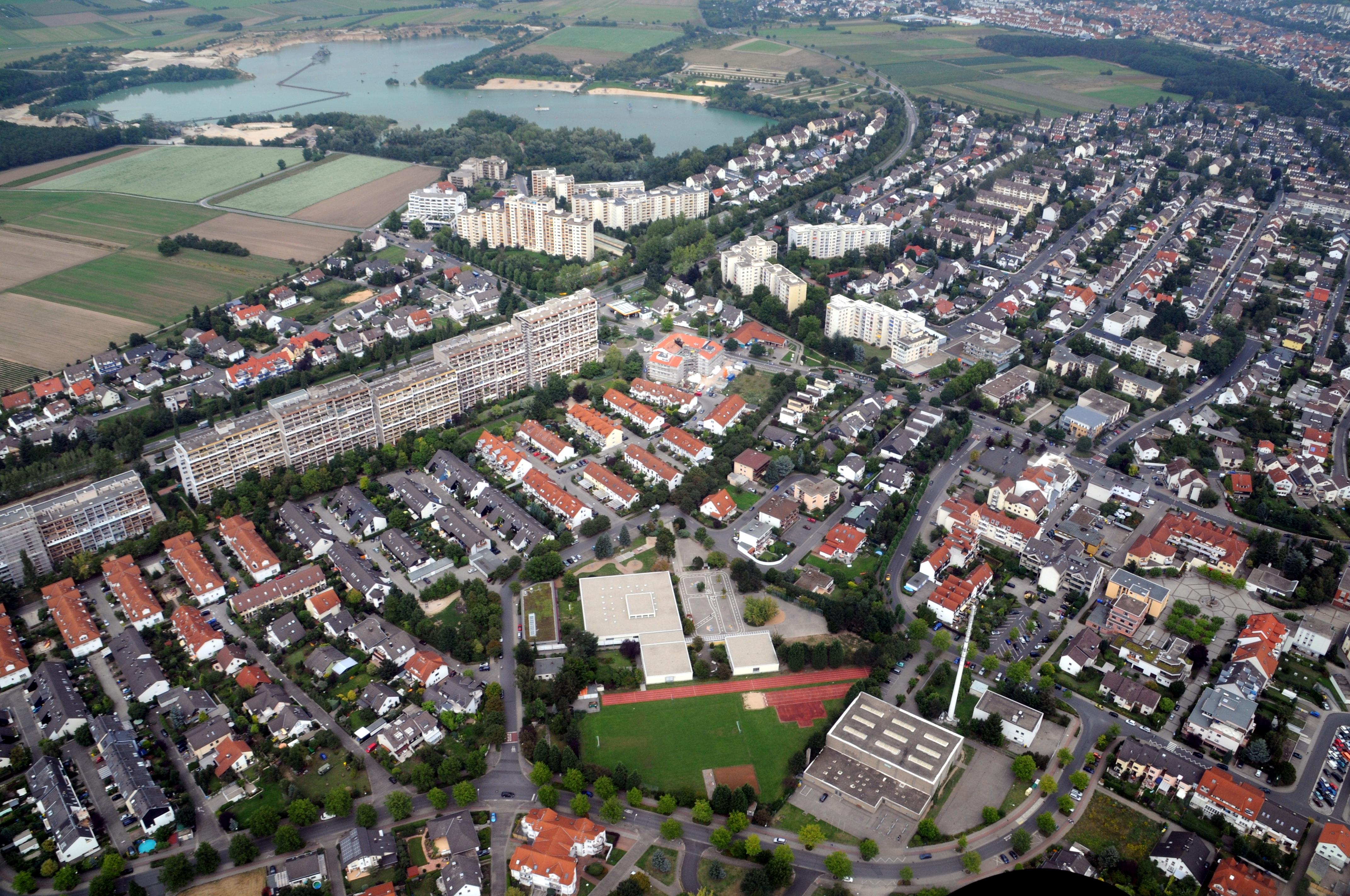 Nieder-Roden, Rodgau, Hesse, Germany, aerial photograph